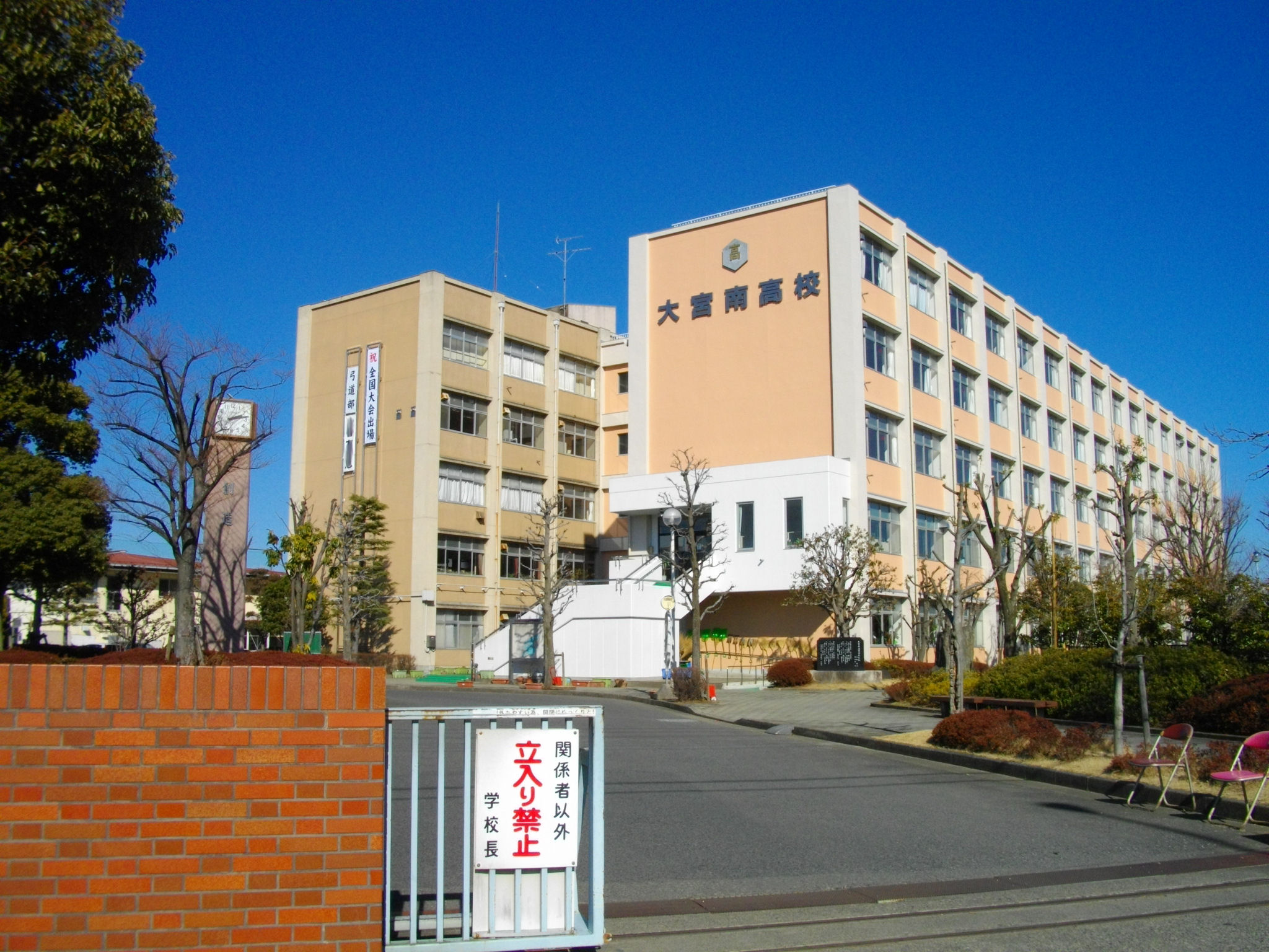 Omiya-Minami High School